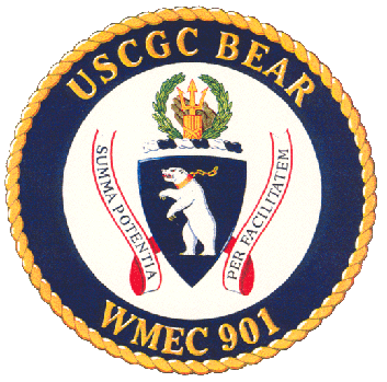 USCGC Bear (WMEC-901) logo